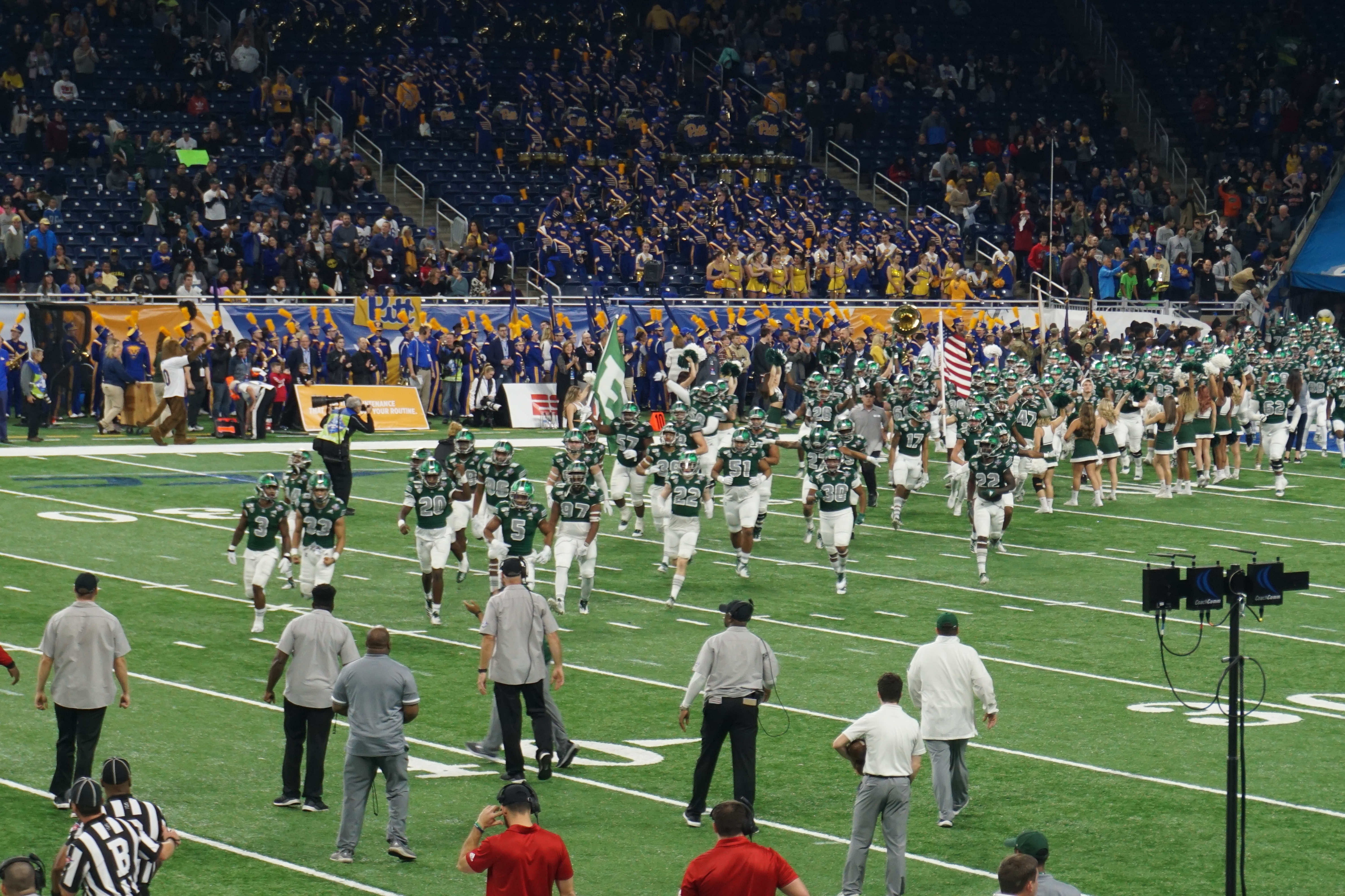 Eastern Michigan entering the field before the 2019 Quick Lane Bowl (Pittsburgh Panthers vs. Eastern Michigan Eagles) at Ford Field in Detroit, Michigan (United States). Pittsburgh won 34–30.